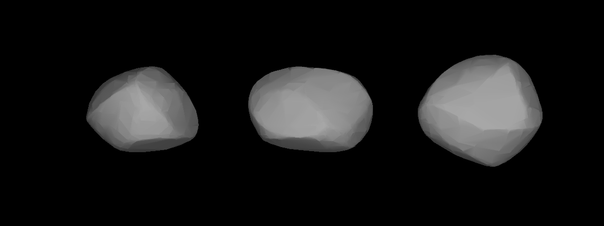 Three-dimensional model of 48 Doris created based on light-curve.